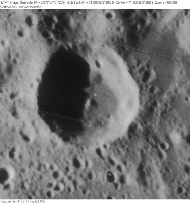 Crater von Behring on the LO-IV-178H image